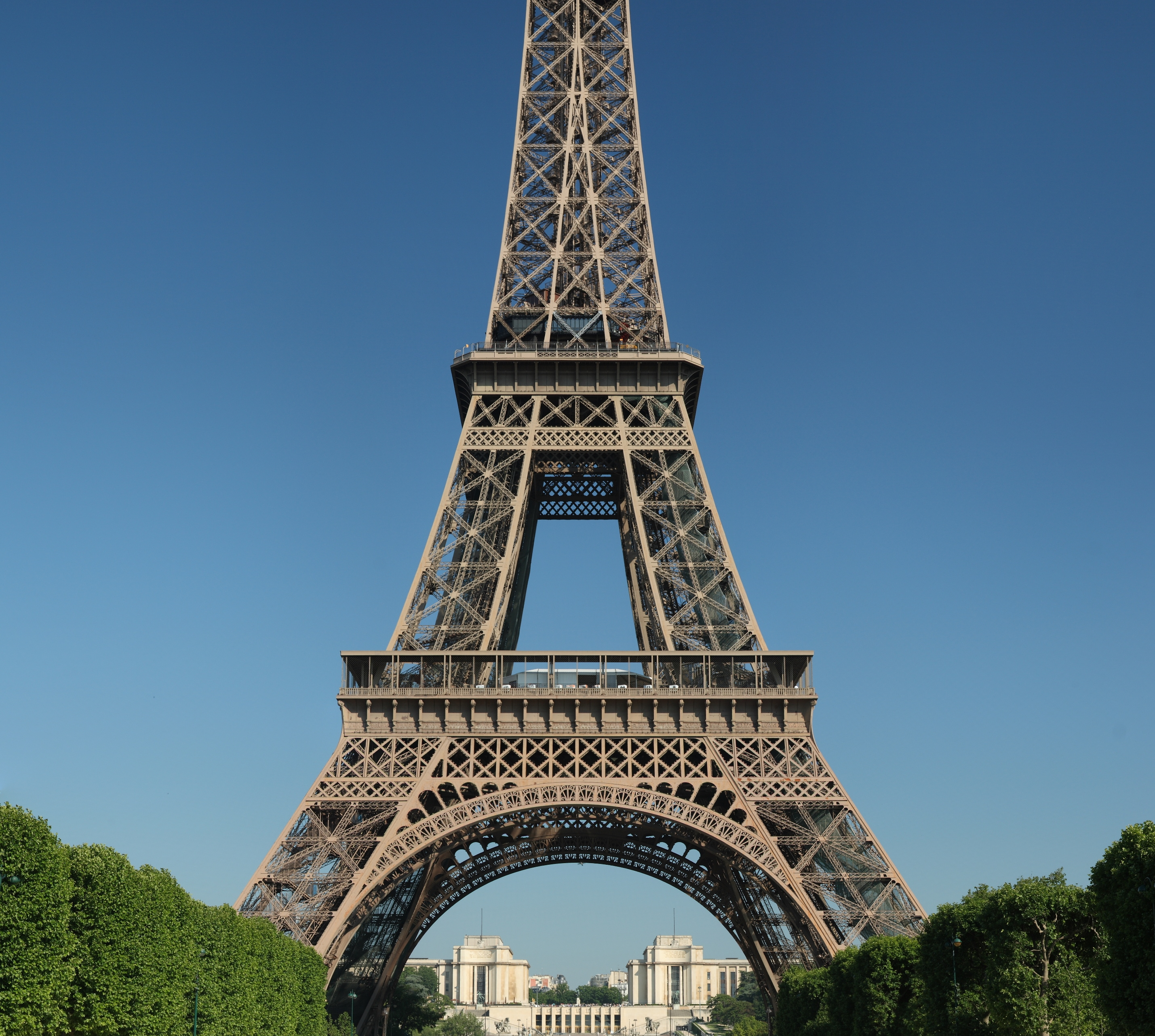 Eiffel Tower, seen from the champ de Mars, Paris, France